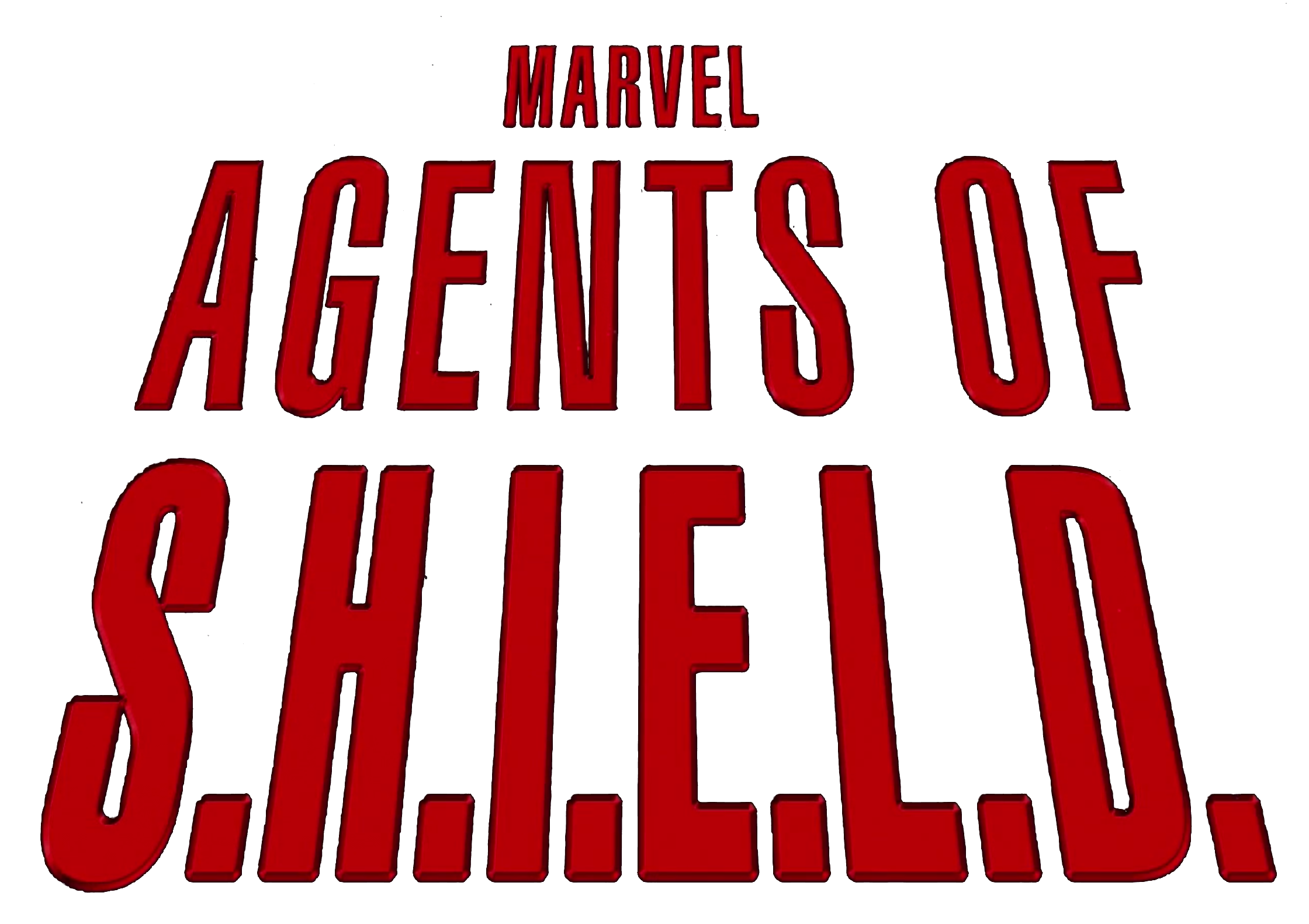 Text logo seen from the title card for episode 703 of Agents of S.H.I.E.L.D., "Alien Commies from the Future!", in a 1950s theme.